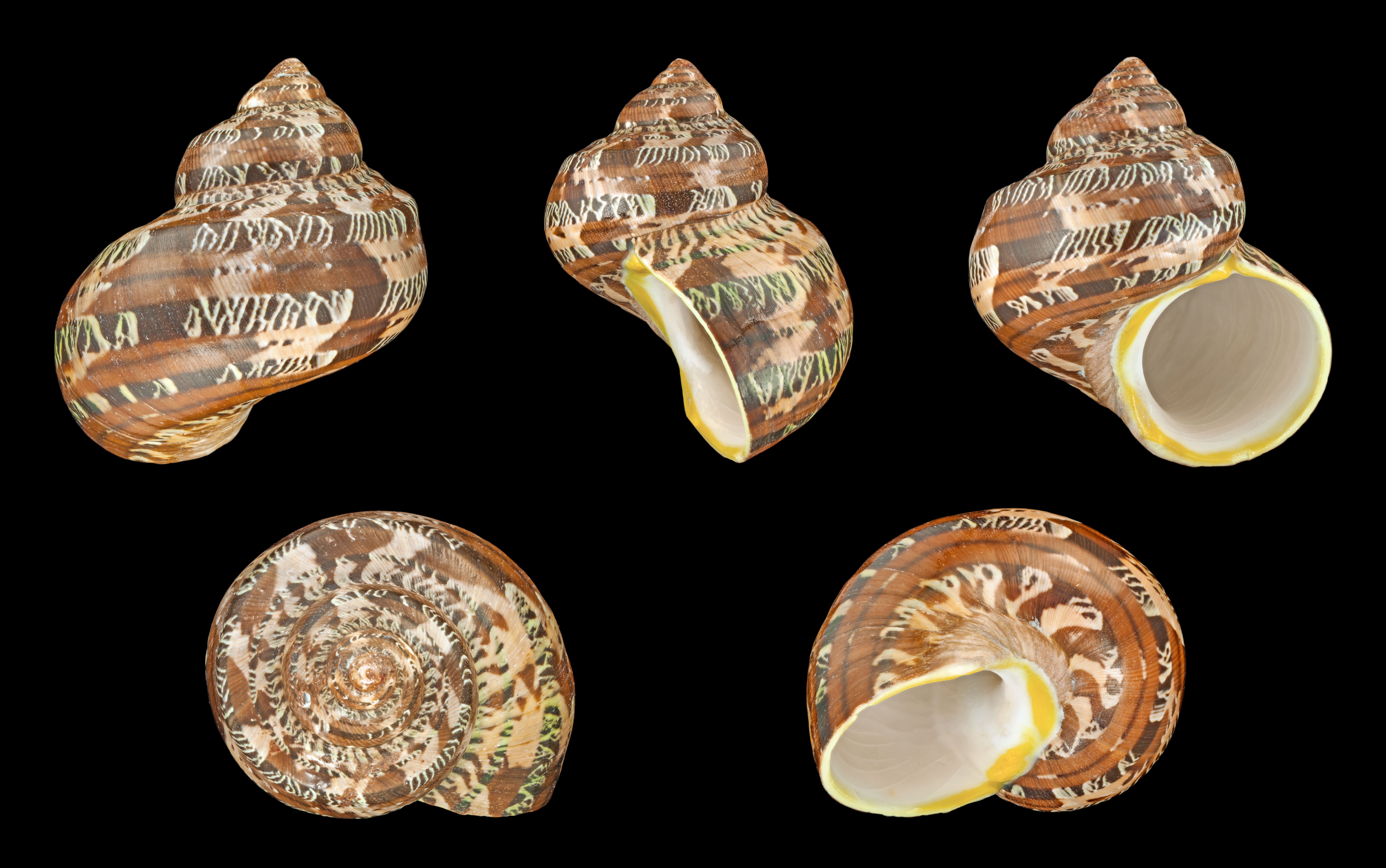 Turbo petholatus Linné, 1758, Tapestry Turban, brown form; Height 6.7 cm; Originating from Vietnam. Shell of own collection, therefore not geocoded.